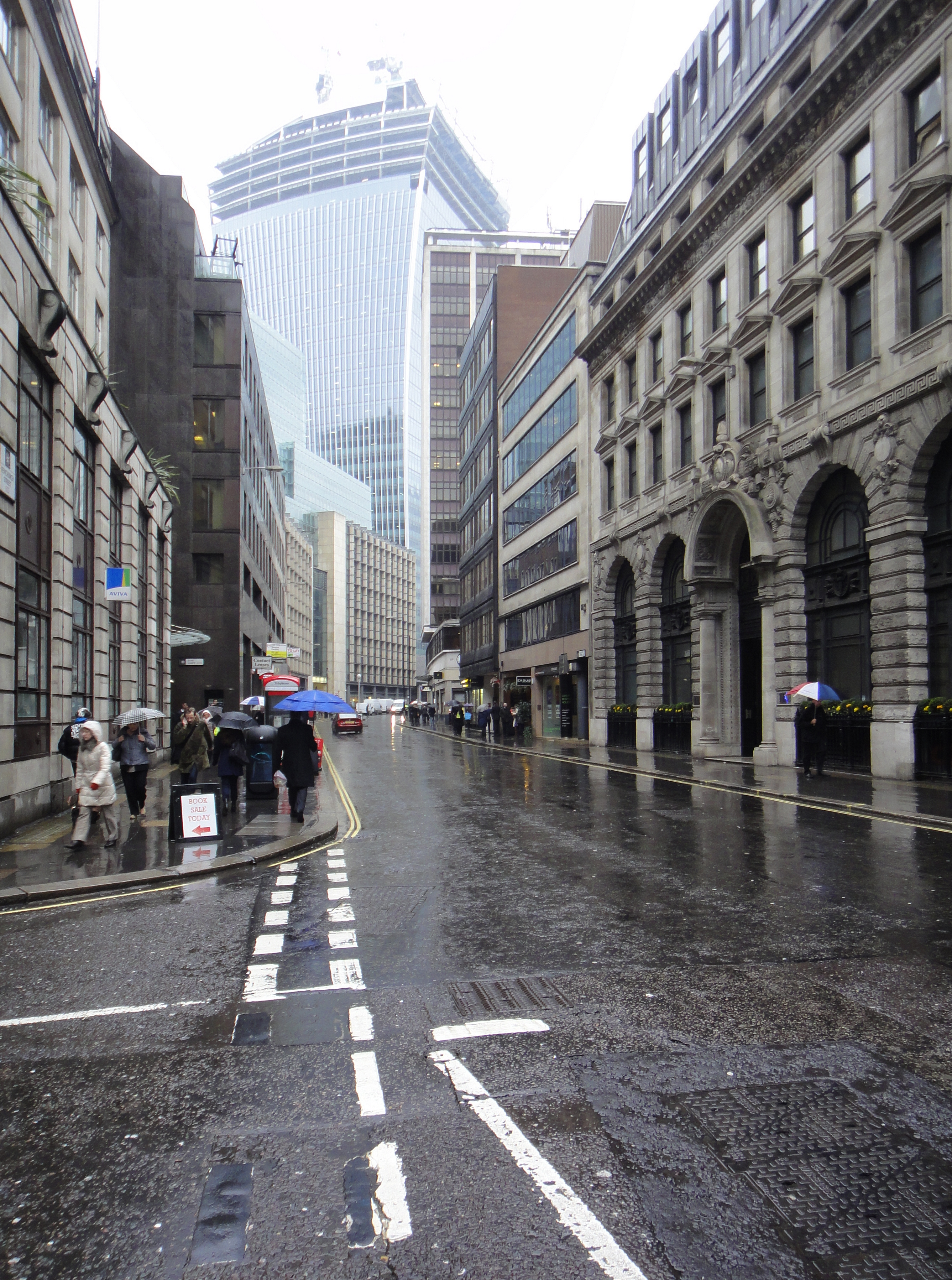 Fenchurch Street, City of London